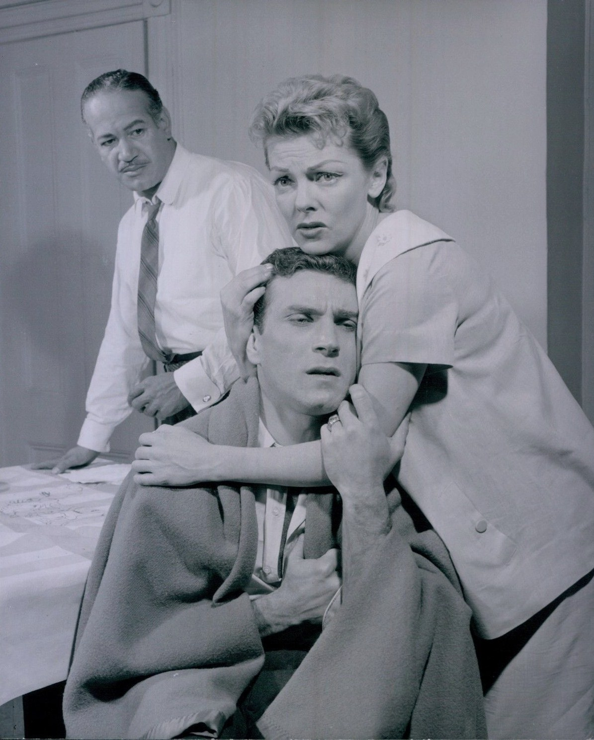 L. to r.: Frank Silvera, Peter Mark Richman & Vivian Blaine in the Michael V. Gazzo's play A Hatful of Rain (Broadway, 1956) - publicity still (cropped)